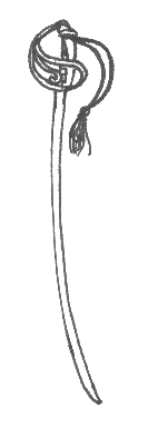 Sketch of a cavalry sabre